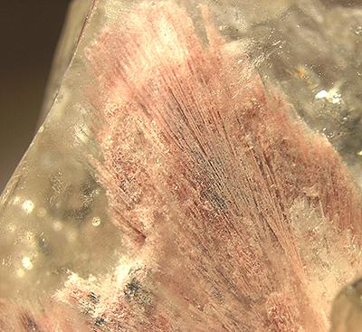 Montmorillonite, Quartz Locality: White Queen Mine, Hiriart Mountain (Heriart; Heriot; Hiriat Hill), Pala District, San Diego County, California, USA (Locality at ) Size: miniature, 6.5 x 5 x 4 cm Quartz included by Montmorillonite ps. after (?) A VERY interesting and to my knowledge unique specimen featuring a fanspray of elongated pink crystals INSIDE a quartz point. The crystals inside have been shown to be Montmorillonite but the form is wrong because the mineral usually is amorphous from the locality, indicating they are a replacement after another, as yet-unidentified mineral species. From Tim Sherburn, who got it from dealer Mark Rodgers in 1984. Note that the front has been polished to enhance display of the inclusion (and the piece is a quartz shard, anyhow)6.5 x 5 x 4 cm